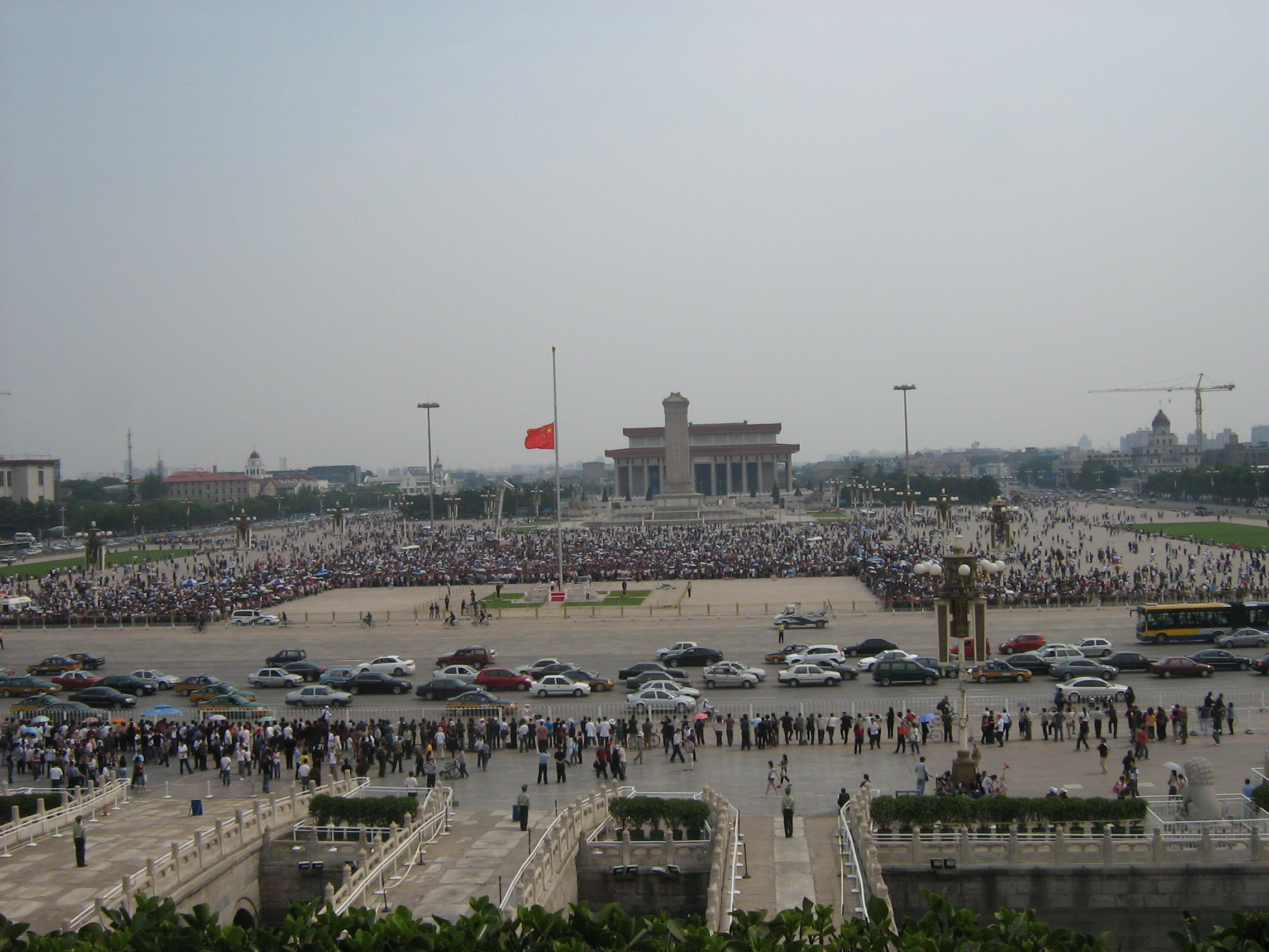 National mourning for 2008 Sichuan earthquake victims - Tiananmen Square, May 19, 2008, 2:10 PM, before moment of silence. taken from Tiananmen